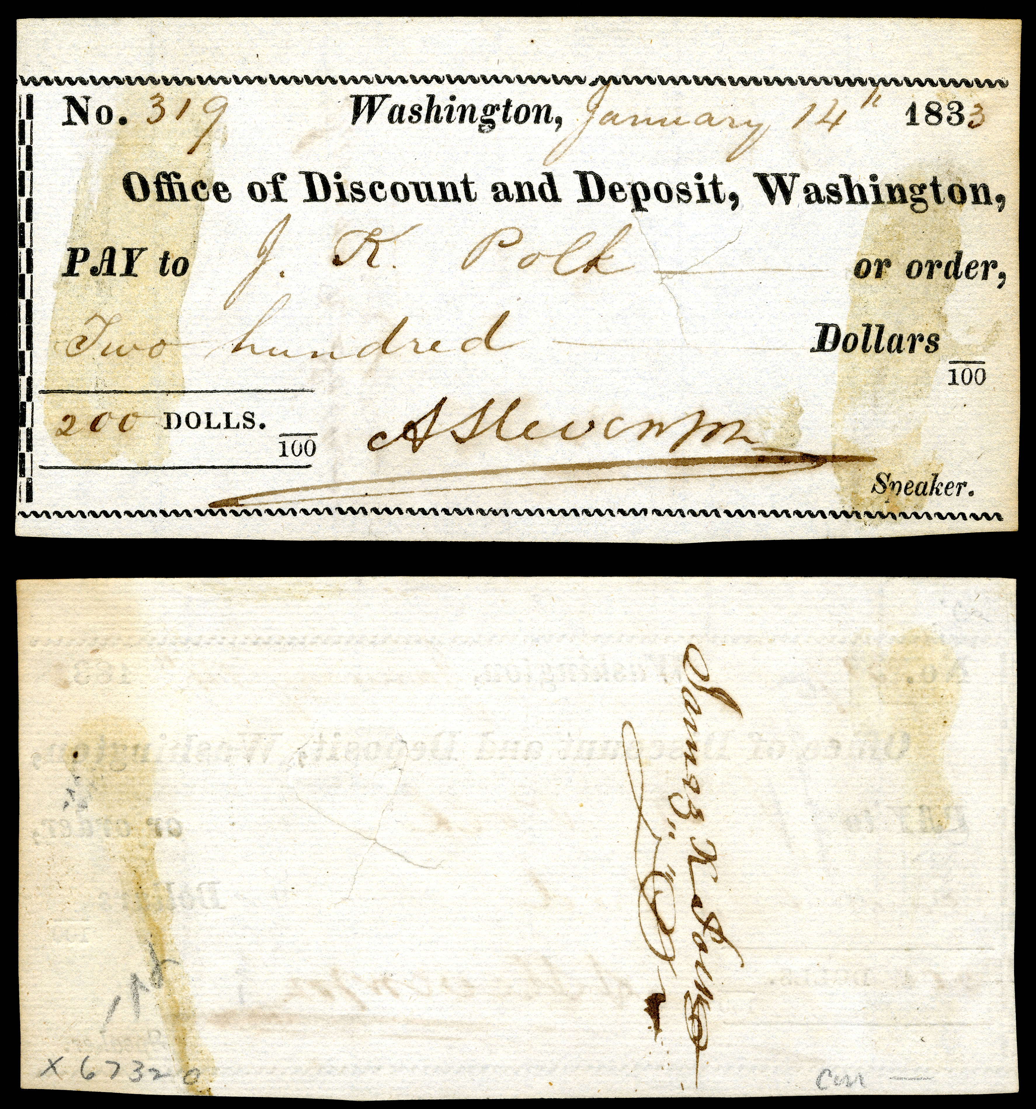 A signed check by James K. Polk (11th President of the United States) while serving as a US Representative from Tennessee.